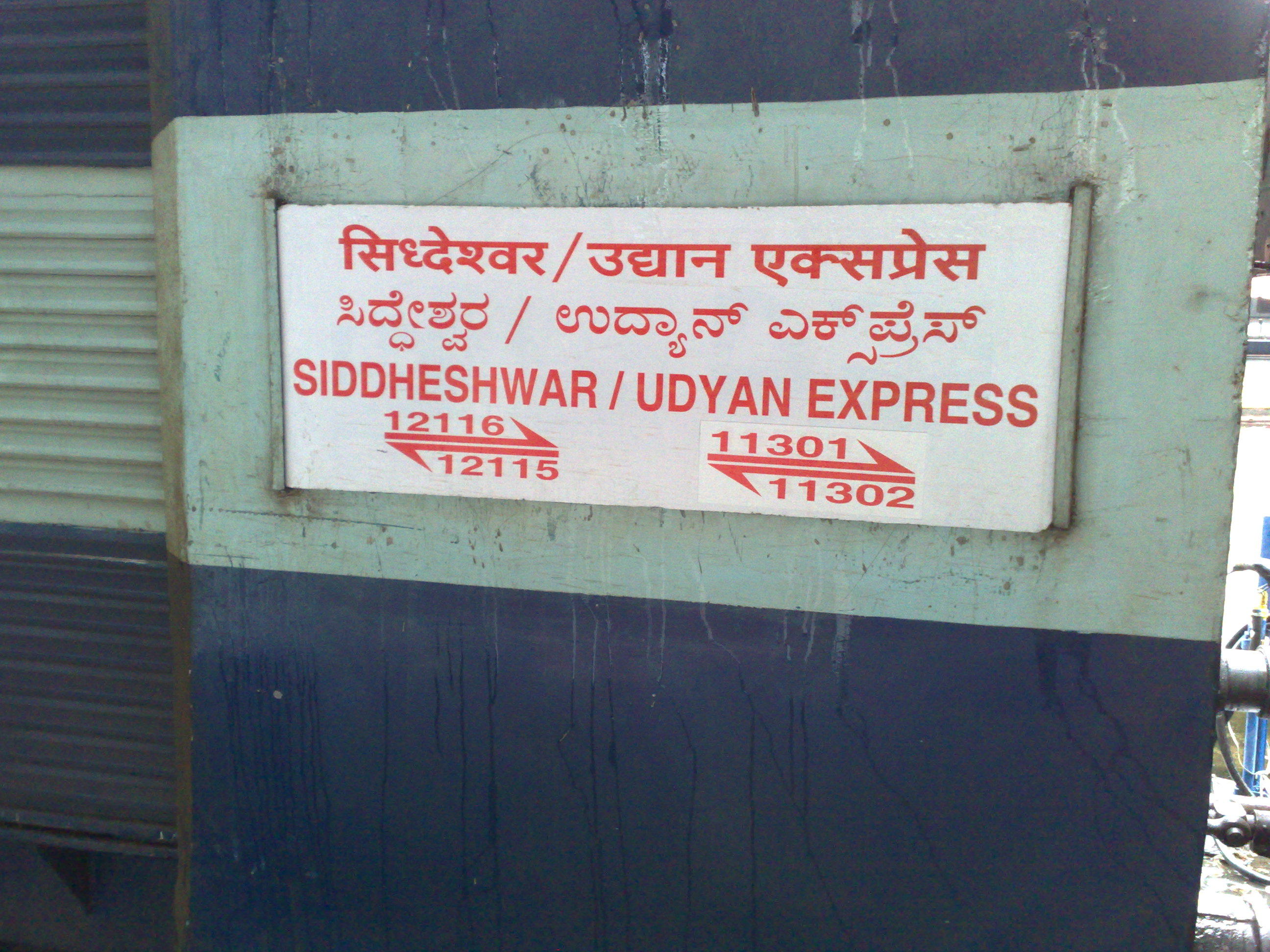 11301 Udyan Express trainboard